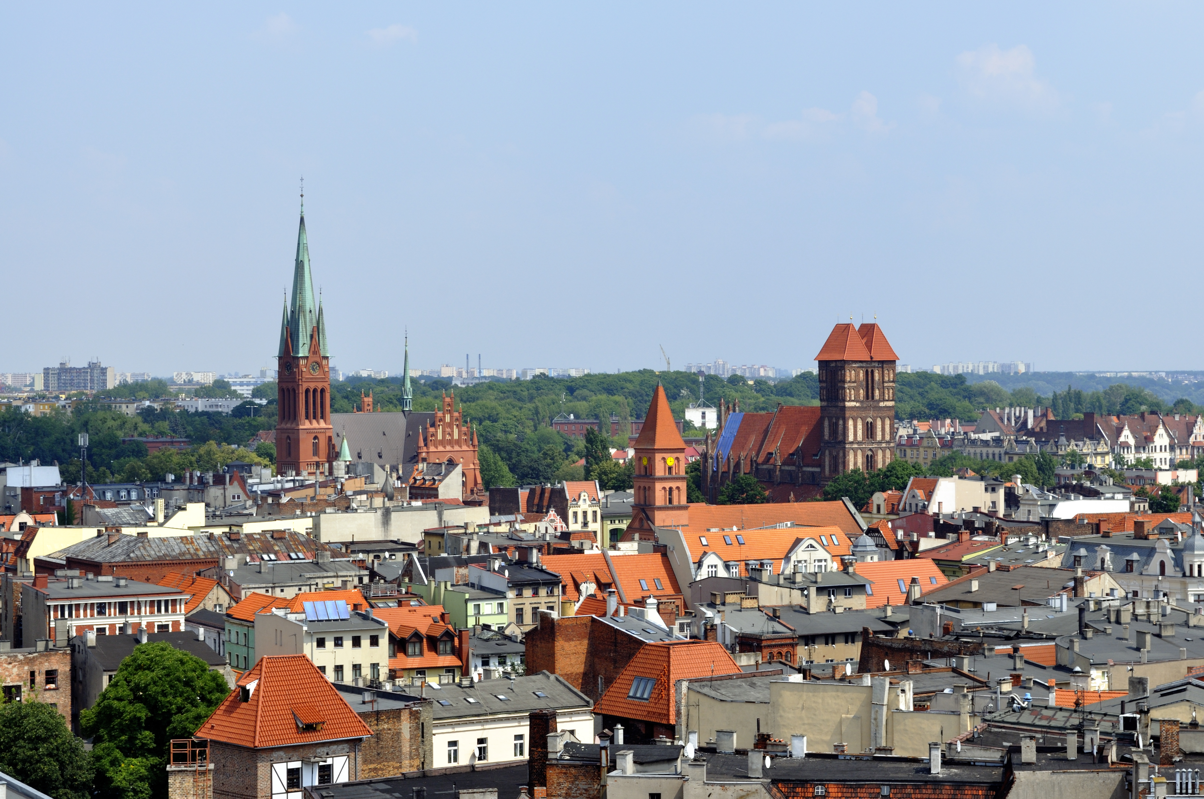 Picture taken in Toruń after Wikimania 2010 conference.